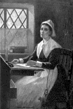 Anne Bradstreet